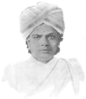 Portrait of T. Subba Row